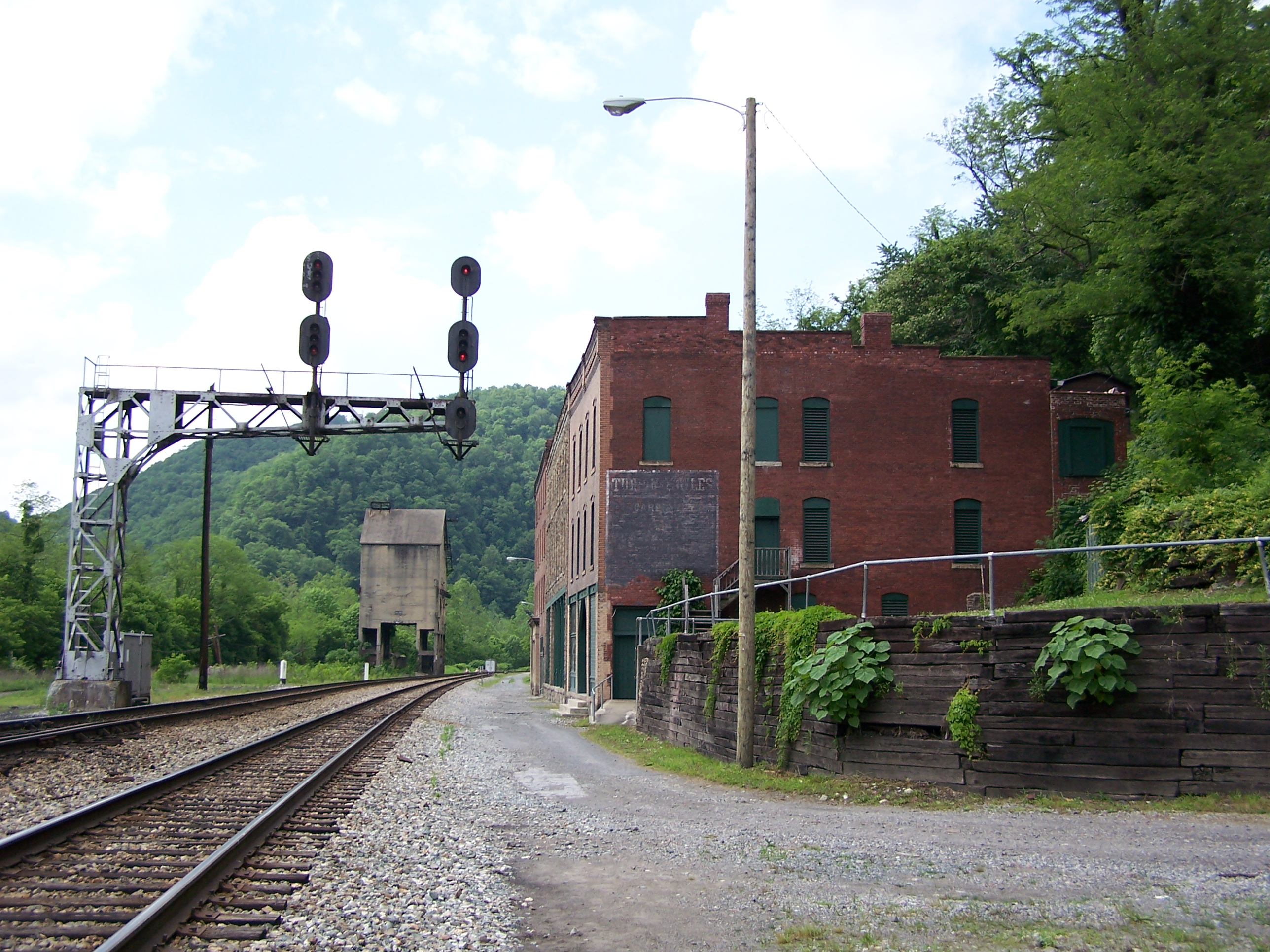 Looking west along the CSX railroad mainline through downtown Thurmond, West Virginia. Vertical color light signals. Photo taken on June 4, 2005, by Brian M. Powell.